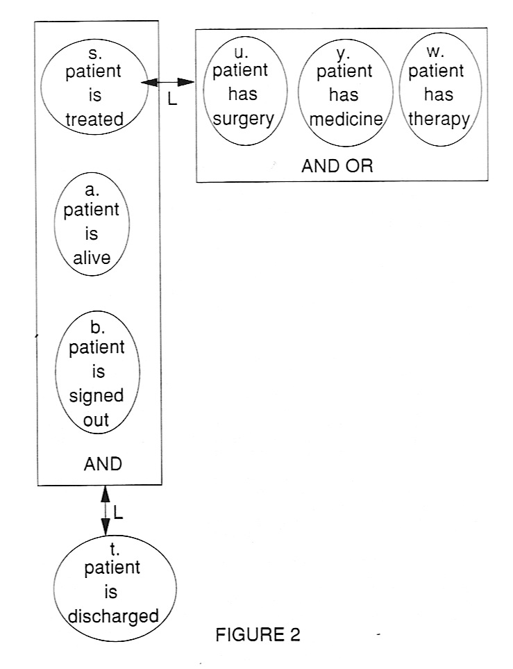 A diagram used in the paper "SSM for Knowledge Elicitation & Representation"